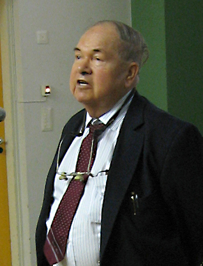 Abrikosov in a lecture